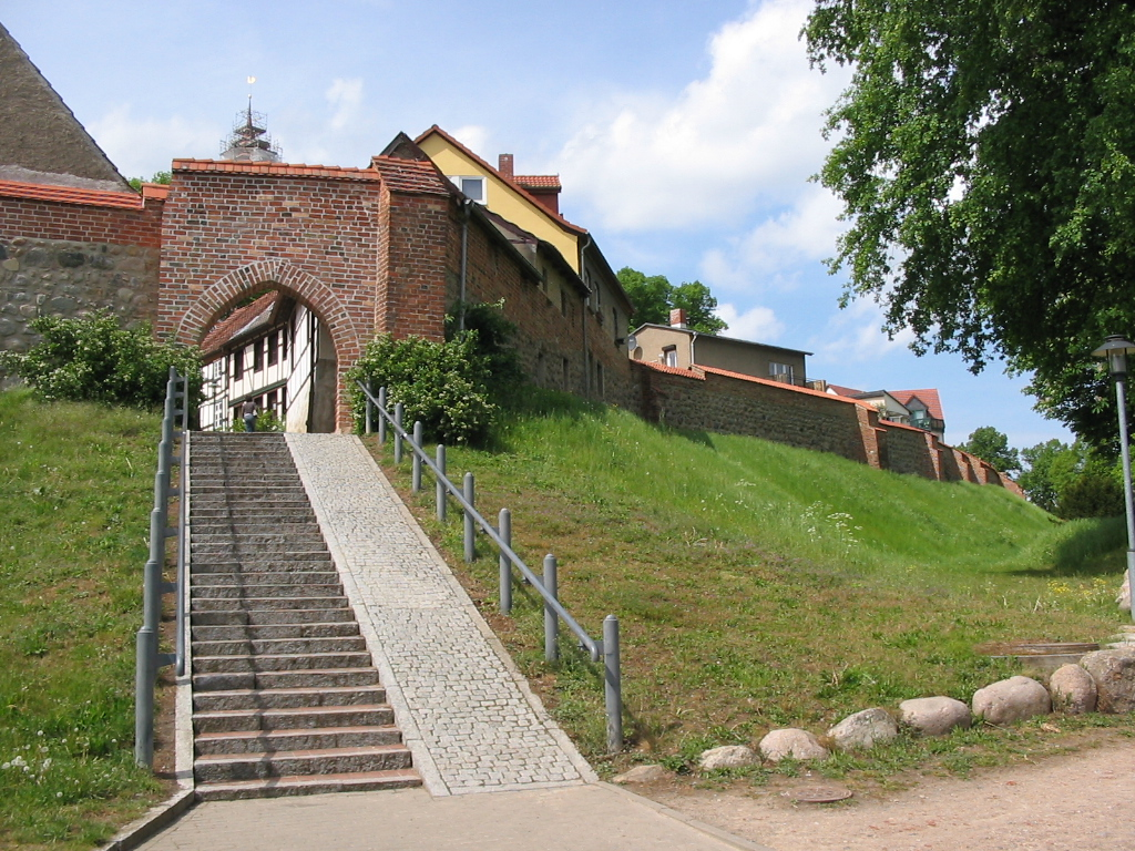 town wall of Sternberg, Germany